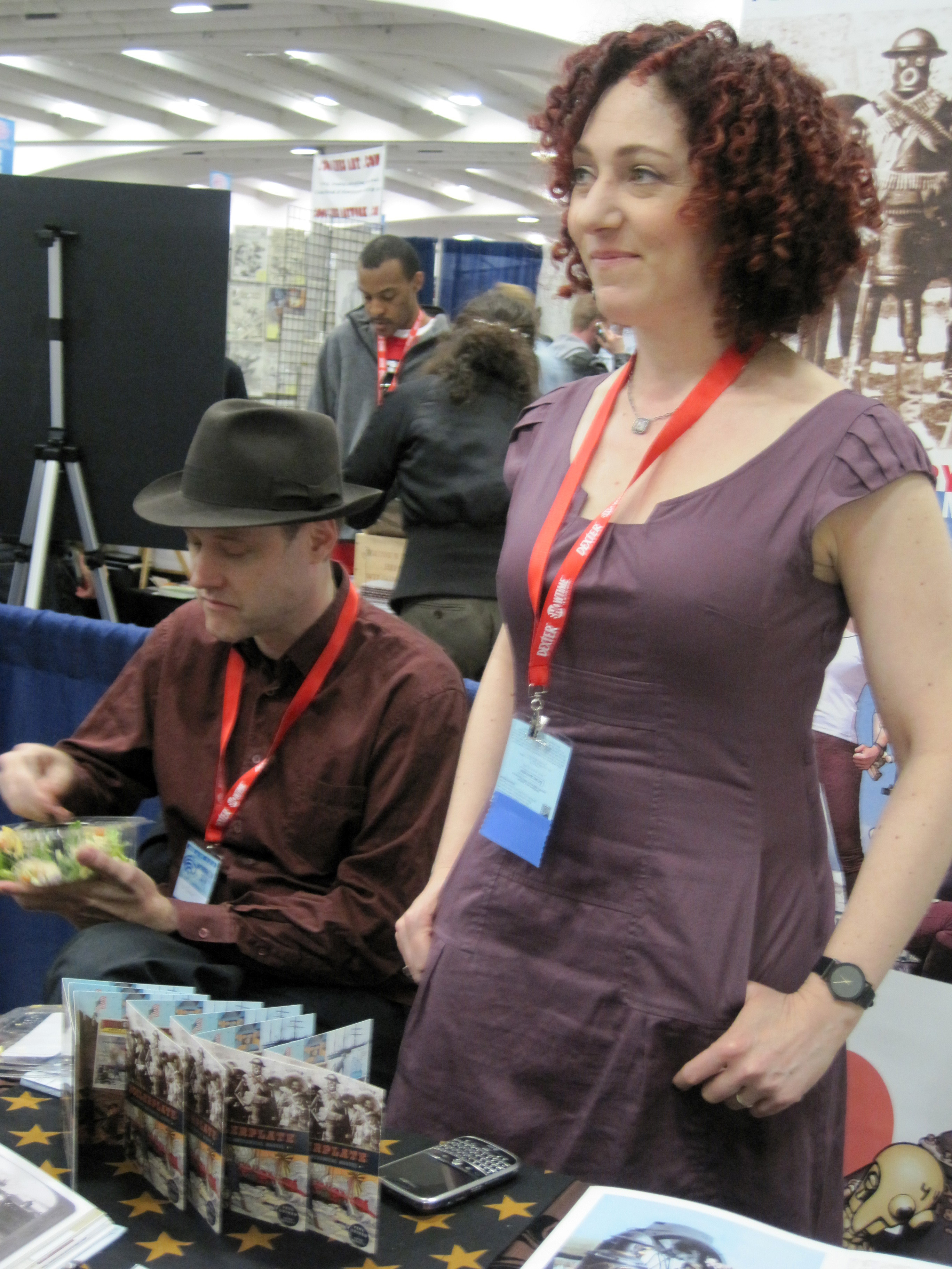 Husband and wife team Paul Guinan and Anina Bennett, the authors of Boilerplate: History's Mechanical Marvel, at WonderCon 2010.